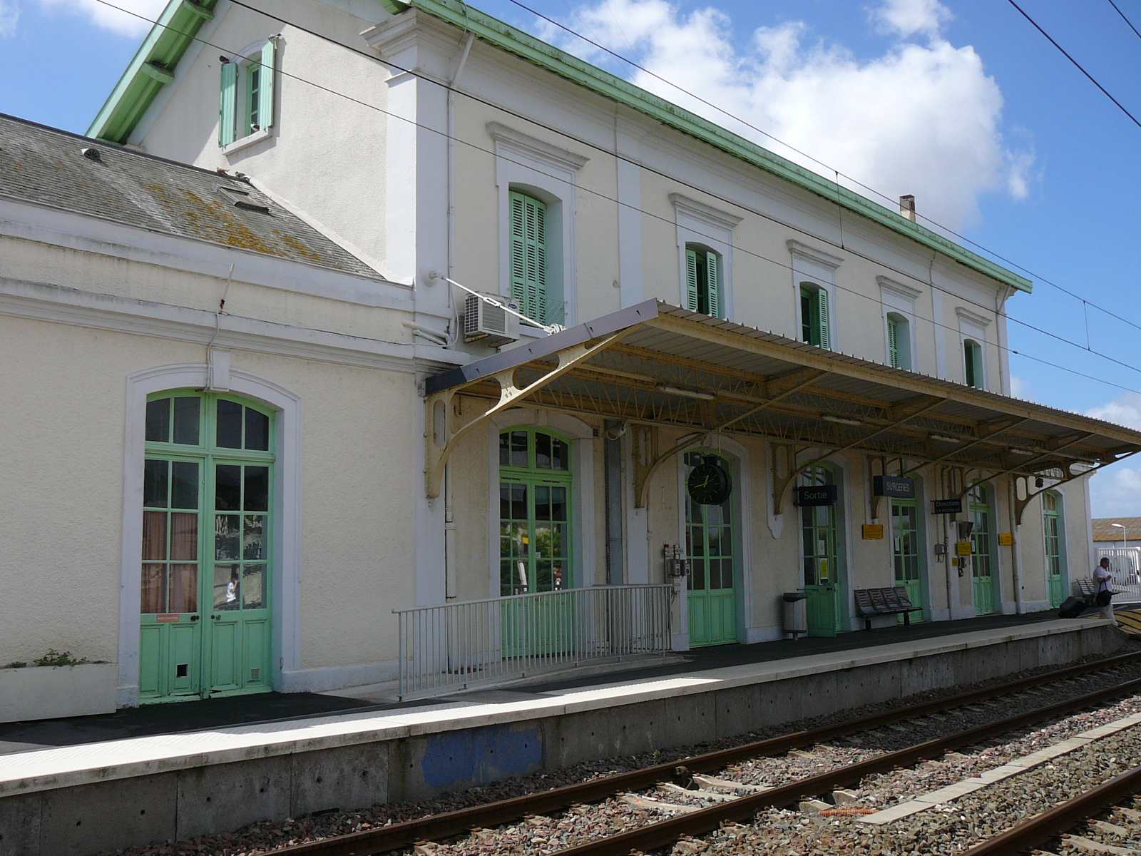 Surgères train station. Charente-Maritime (17), Poitou-Charentes, France, Europe.